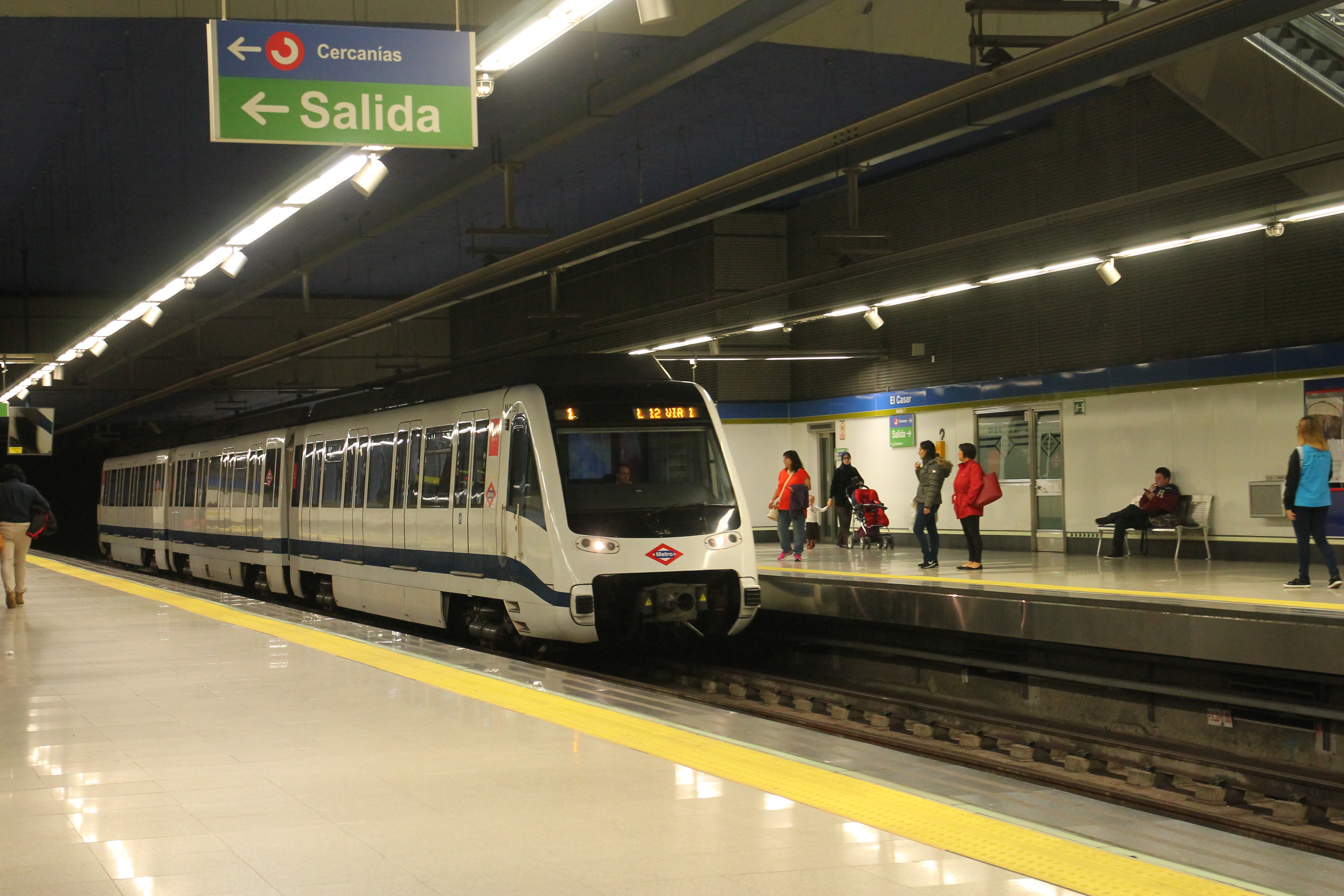 El Casar metro station, line 12, Madrid, train class 8000